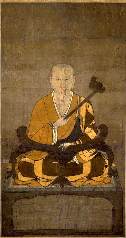 Ancient painting of Sramana Zhiyi, founder of the Tiantai school of Buddhism.